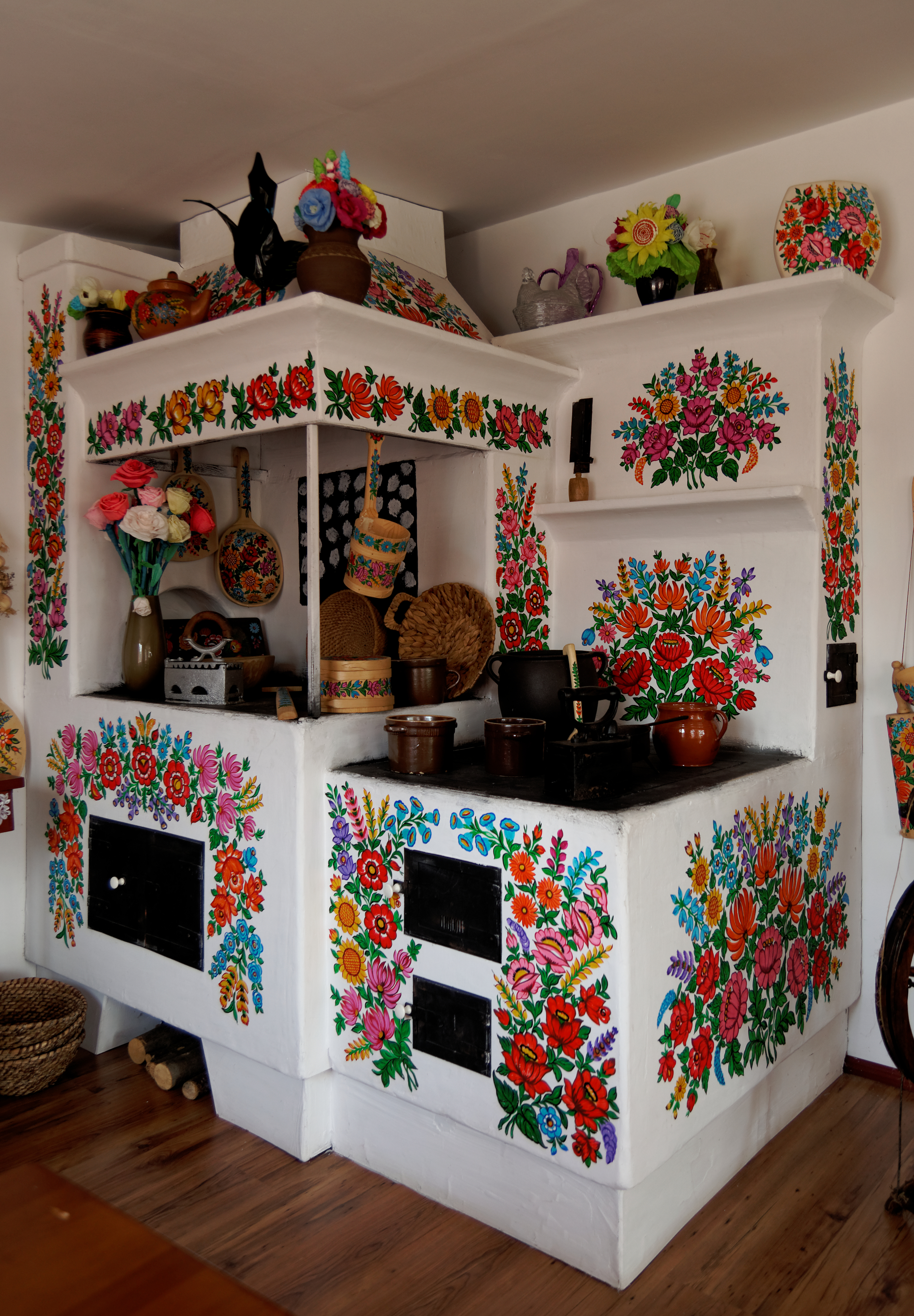 Kitchen in Felicia Curyłowa's Farm Museum in Zalipie